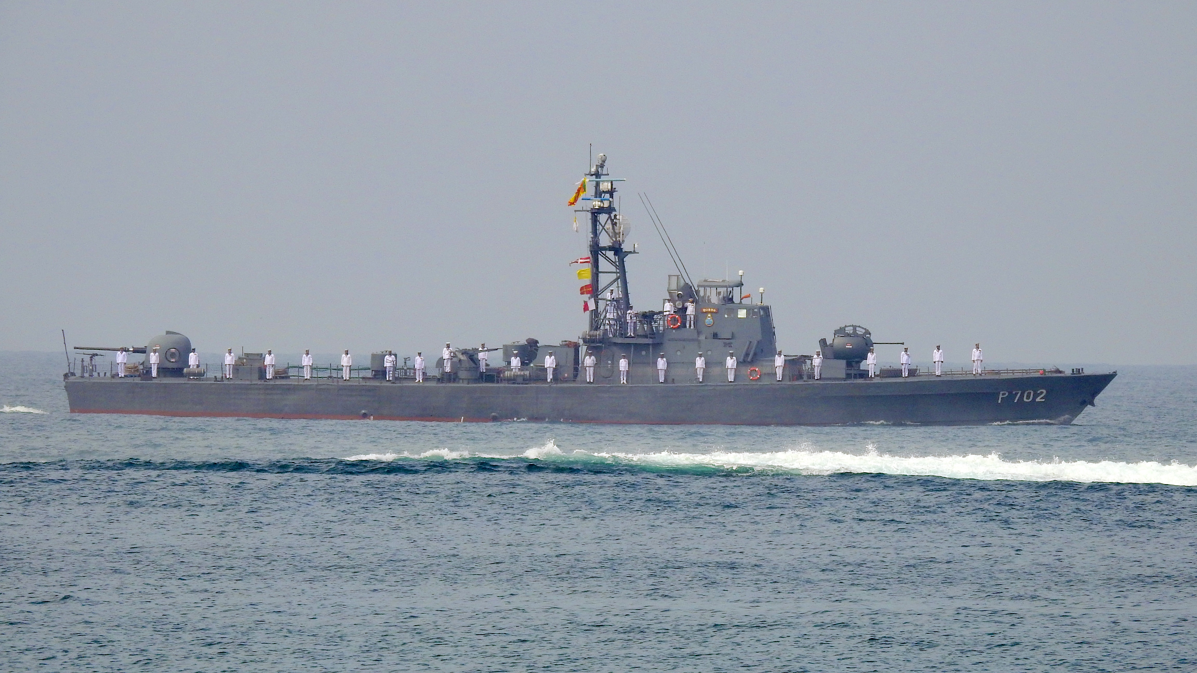 A 2-hour photowalk was conducted during the Independence Day of Sri Lanka (4 February 2019), covering the environment and events near the annual parade held at Galle Face Green. The project mostly covered the Navy and Coast Guard vessels, Air Force aircrafts, and civilian life during that morning.